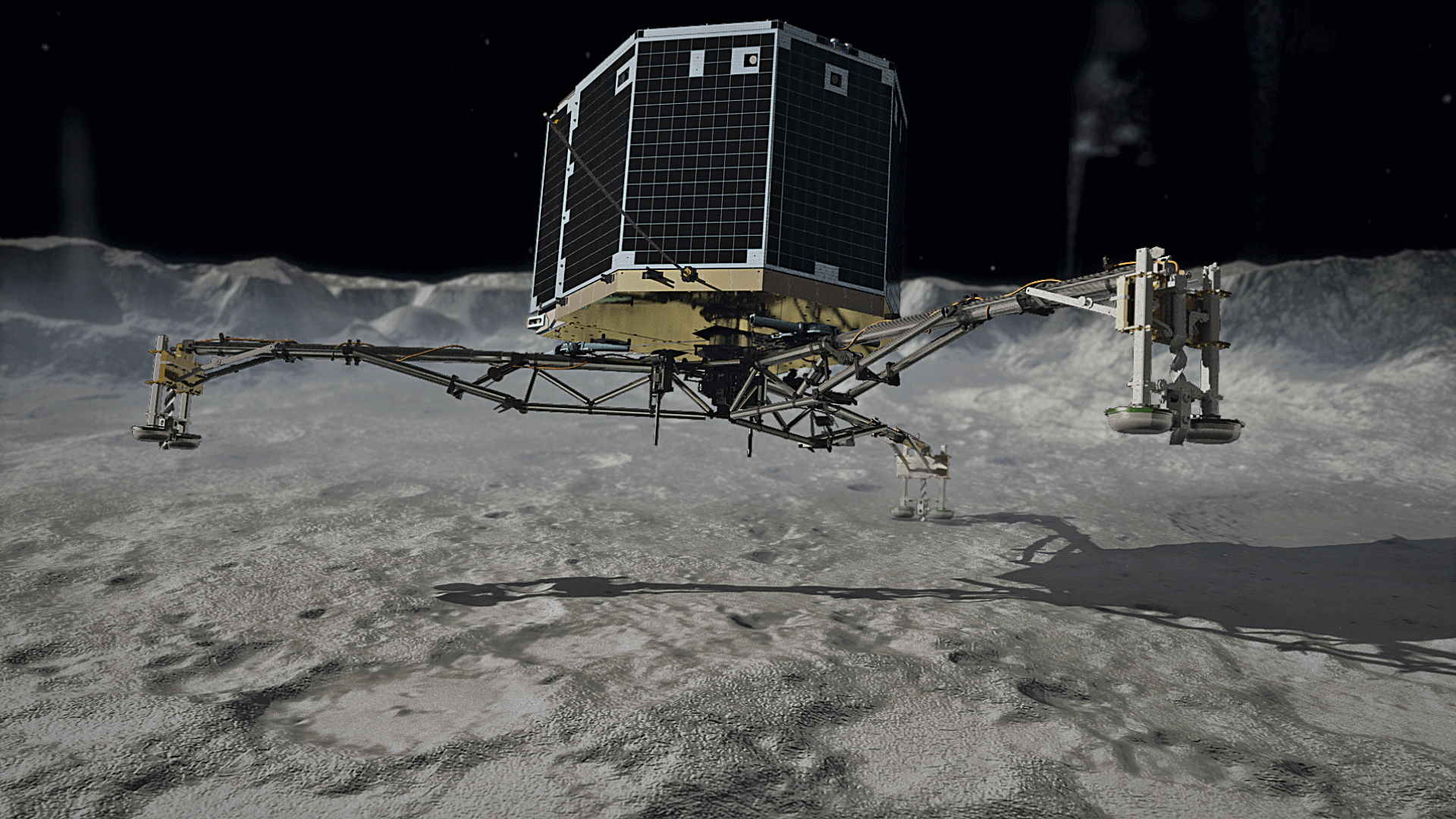 Philae touchdown Few things could be more fascinating or demanding in the history of European space travel than the Rosetta comet mission. The lander, Philae, will separate from its parent craft on 11 November 2014, touch down on the comet and immediately fire harpoons to anchor itself on the surface. The two spacecraft will then accompany the comet on its month-long journey to the point at which it is closest to the Sun.